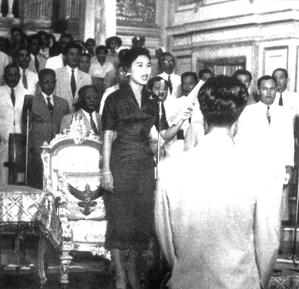 Appointed by her husband Bhumibol Adulyadej as his regent, Sirikit took an oath of office amongst the National Assembly of Thailand convened at the Ananta Samakhom Throne Hall, on 20 September 1956.